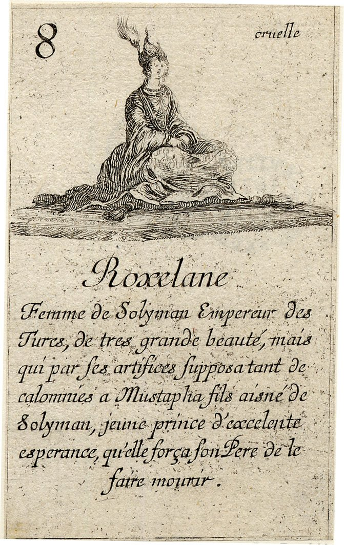 Lettered below image with title and seven lines of description in French beginning "Femme de Solyman Empereur des Turcs" (Wife of Suleiman the Magnificent, emperor of the Turks) and with "cruelle" (cruel) above to right; numbered 8 at top left.